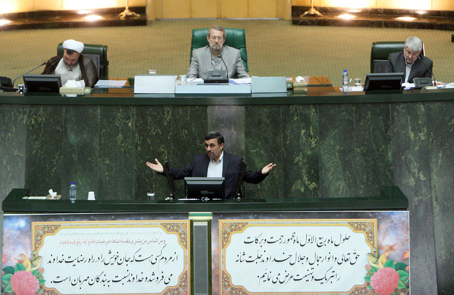 speechify Mahmoud Ahmadinejad in The Islamic Consultative Assembly or Iranian Parliament.